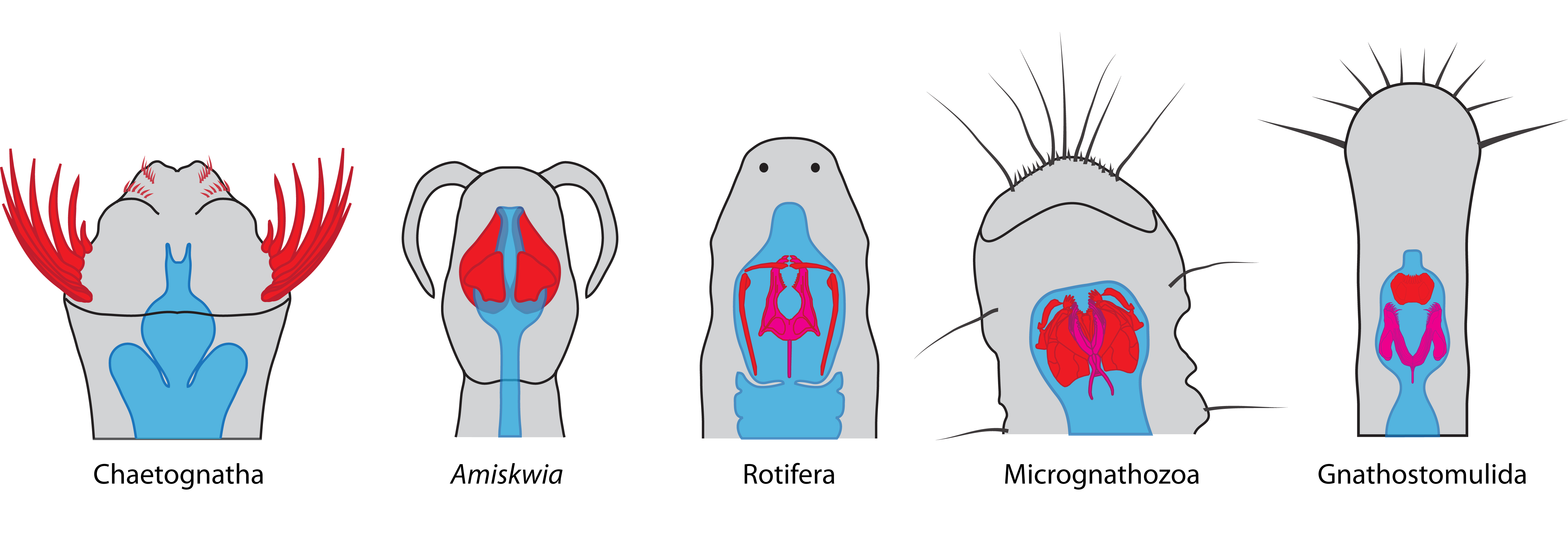 Heads of Chaetognatha, Amiskwia, and Gnathifera (Rotifera : Dicranophorus forcipatus, Micrognathozoa : Limnognathia maerski, Gnathostomulida : Gnathostomaria sp.) in ventral view. The gut is in blue, the jaw elements in red, and the forceps like structures in purple.